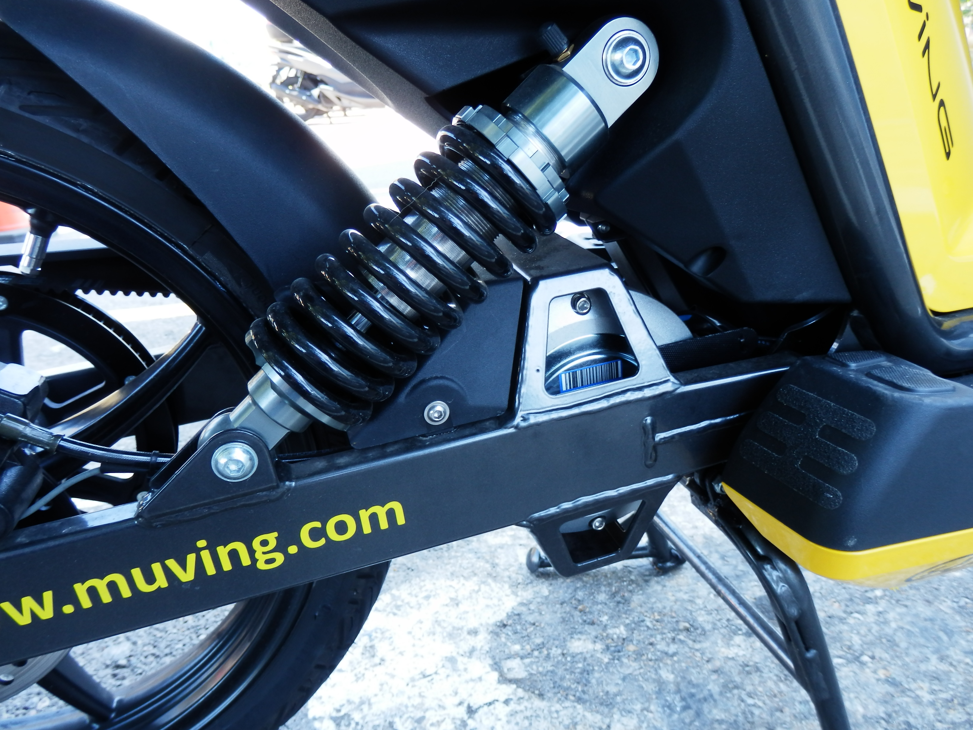 Torrot Muvi electric bike.